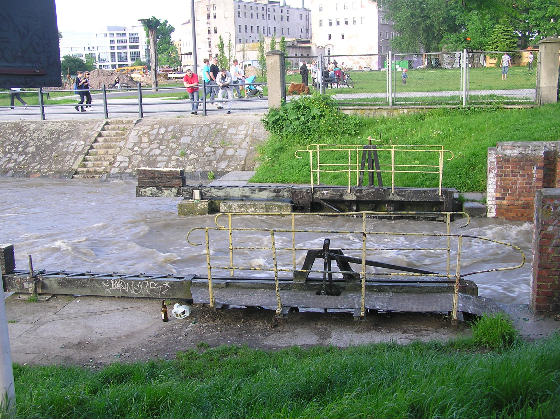 Wrocław, Piaskowa Lock